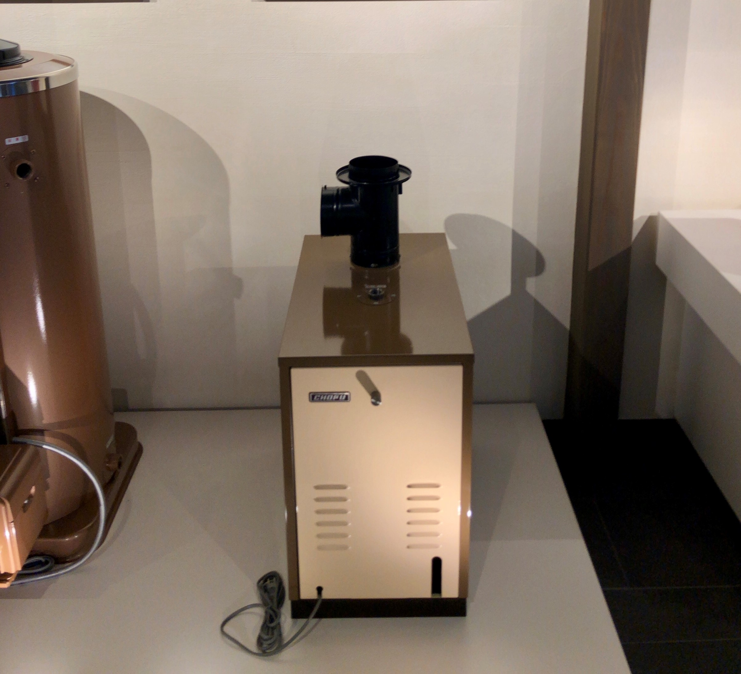 CHOFU SEISAKUSHO - Boiler